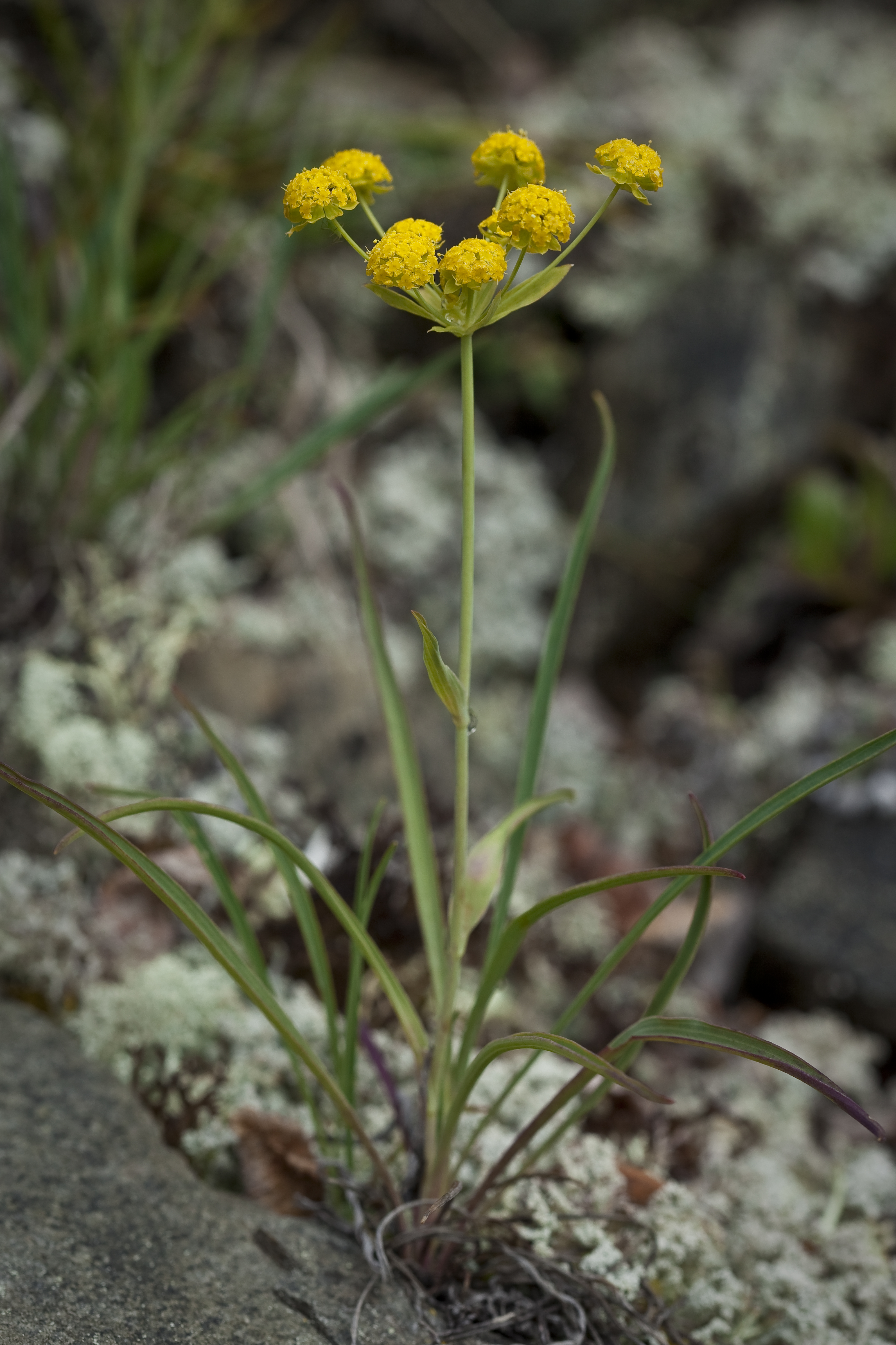 Bupleurum americanum syn. Bupleurum triradiatum ssp. arcticum, Denali National Park and Preserve, AK, USA